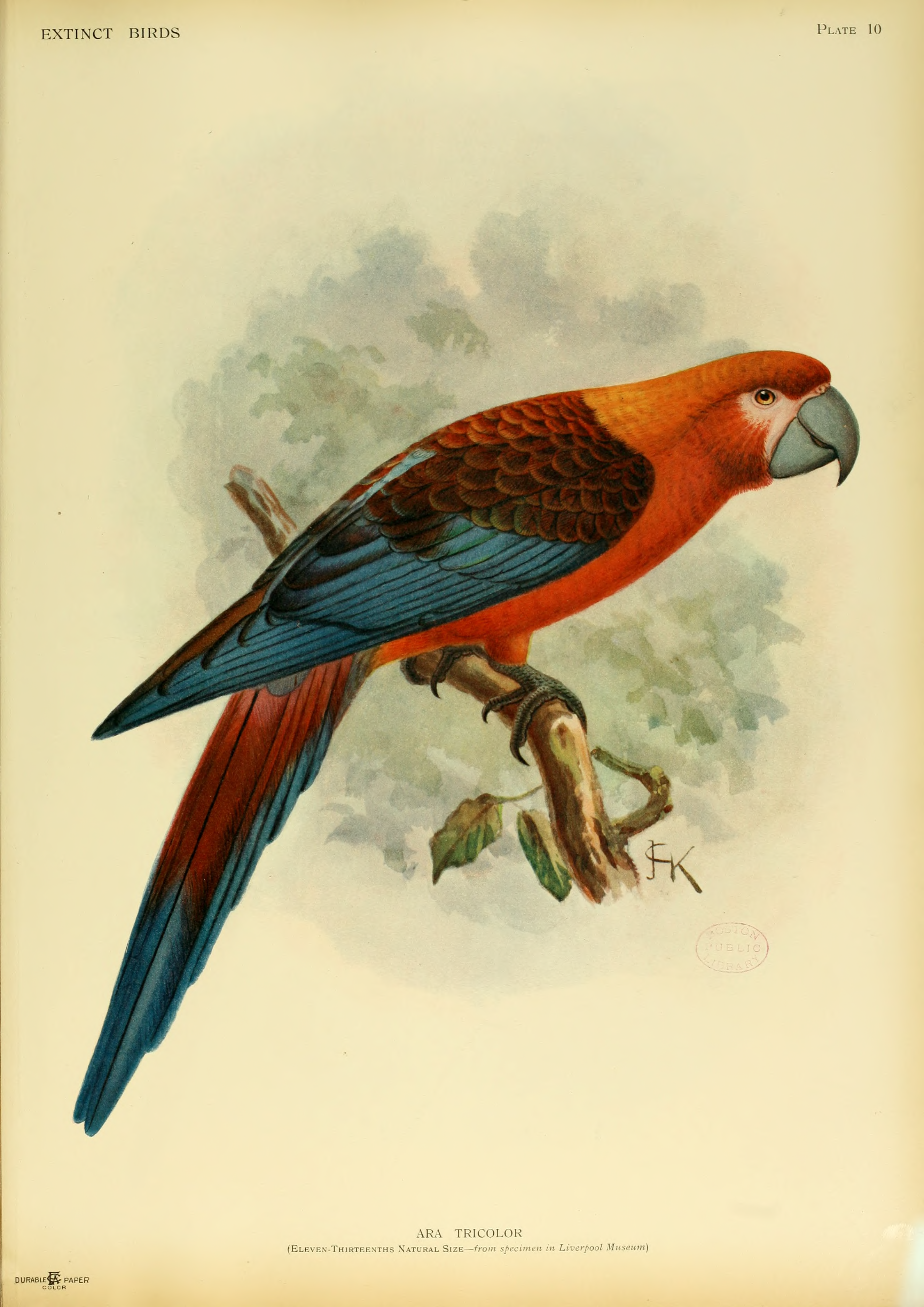 The Cuban Red Macaw, Ara tricolor, is an extinct species of parrot that was native to Cuba and the Isla de la Juventud, an island off the coast of west Cuba.